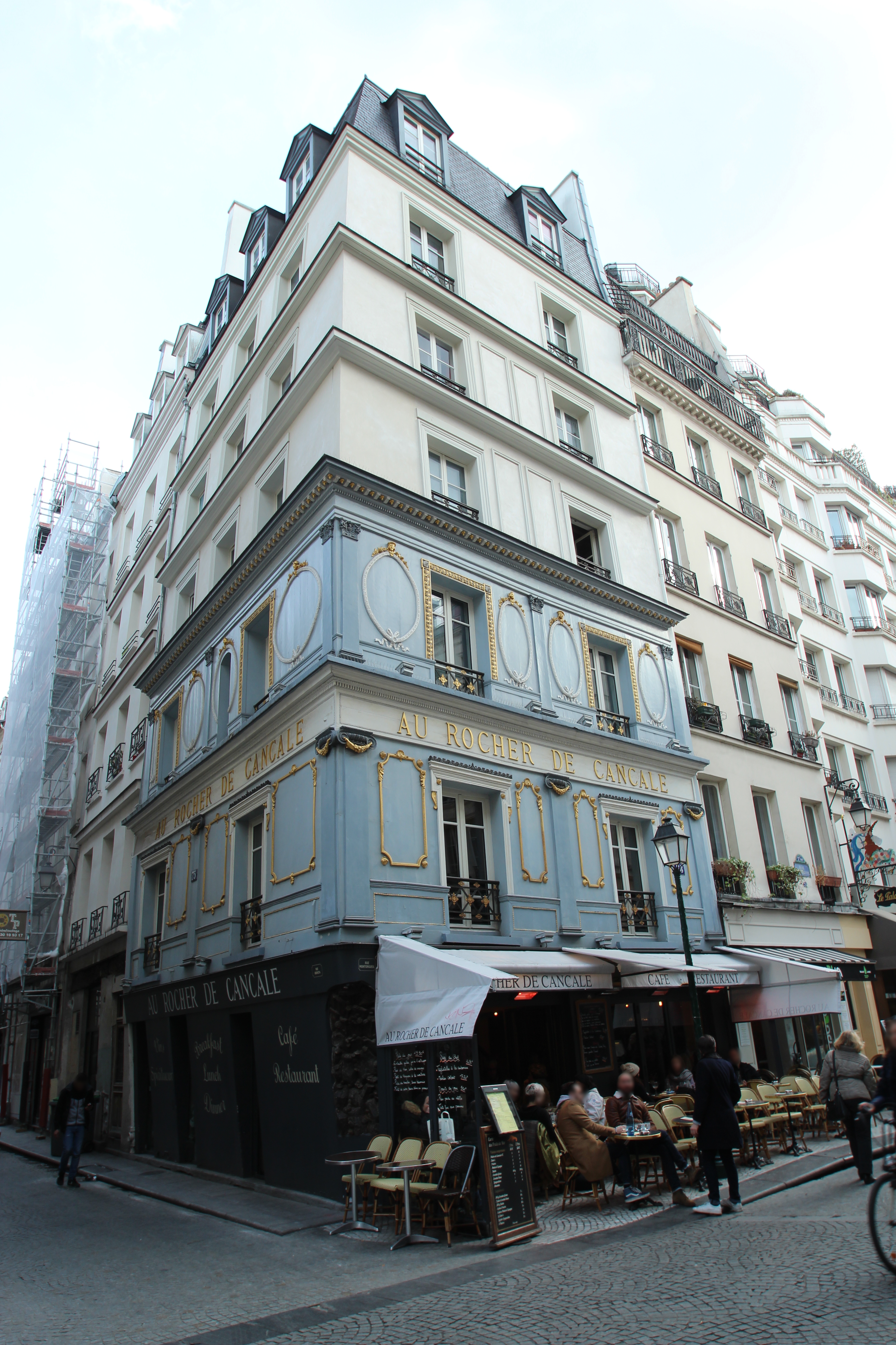 Au Rocher de Cancale restaurant located at 78 Montorgueil street in Paris, France. Object location48° 51′ 56.24″ N, 2° 20′ 49.34″ E .